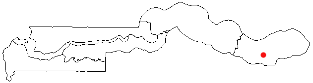 Basse Santa Su, The Gambia Location Map